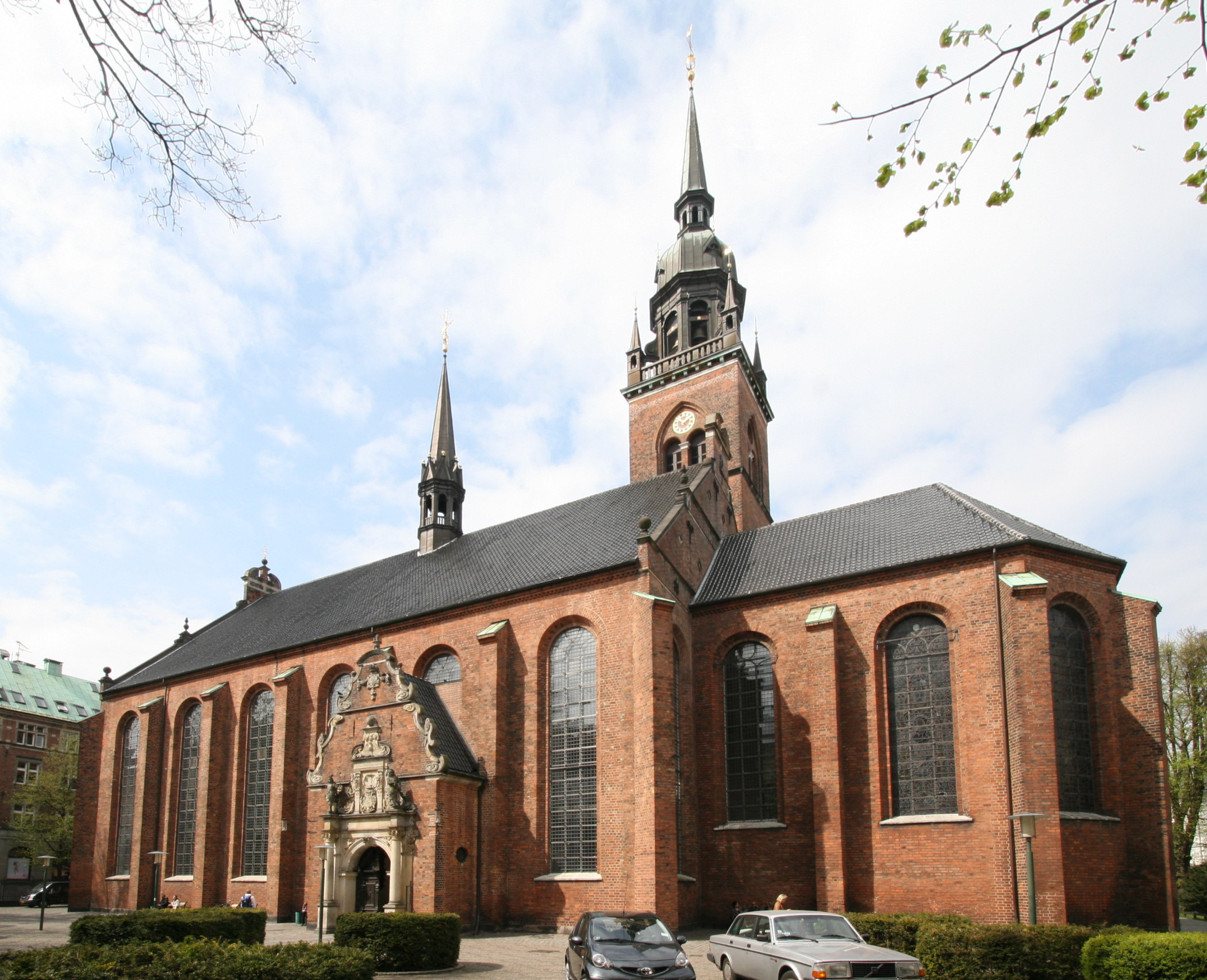 Helligåndskirken, Copenhagen, Denmark. (Church of the Holy Spirit.) Image digitally corrected for perspective.